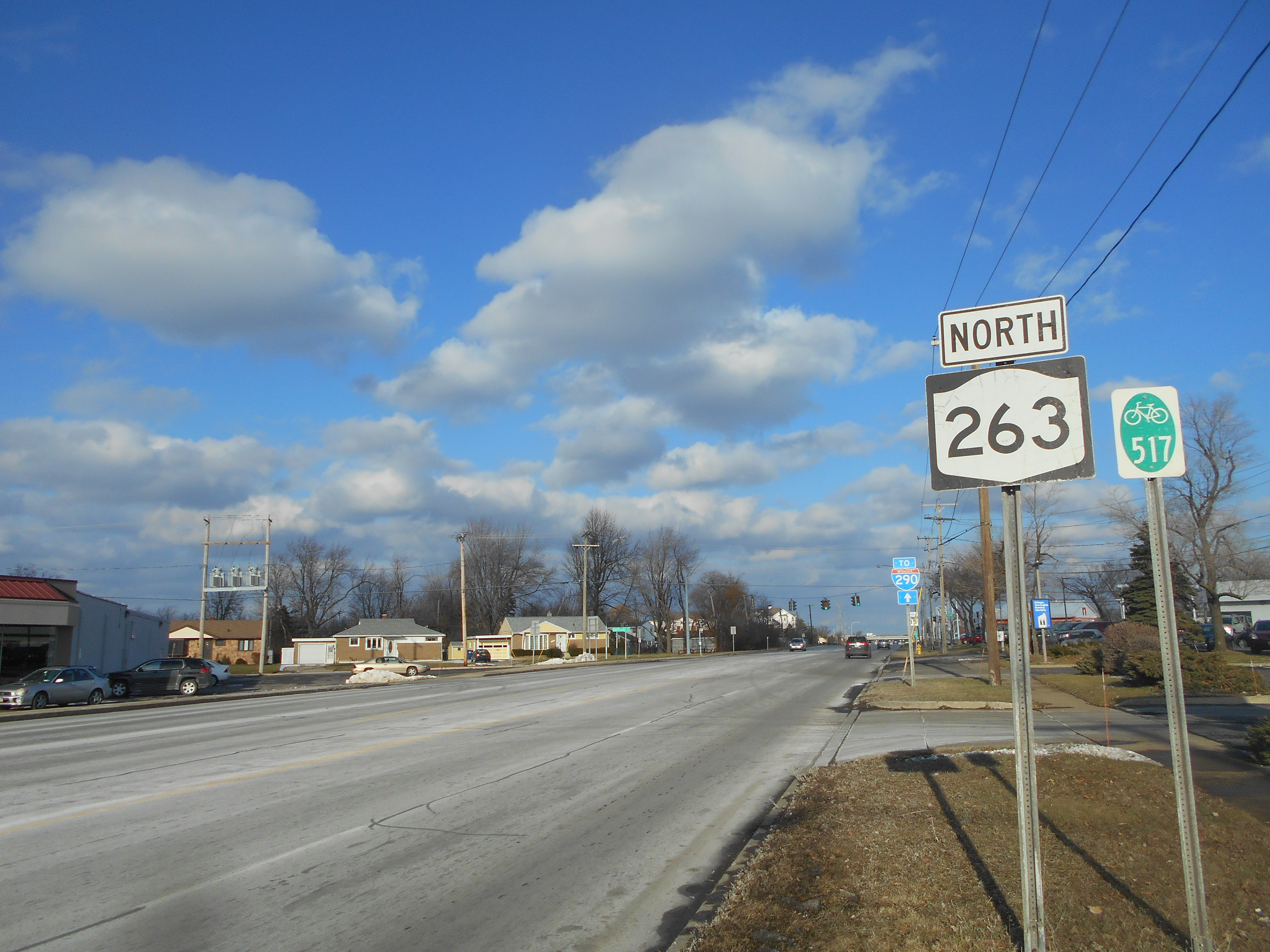 New York State Route 263 north of New York State Route 324 (Sheridan Drive) in Amherst, New York.